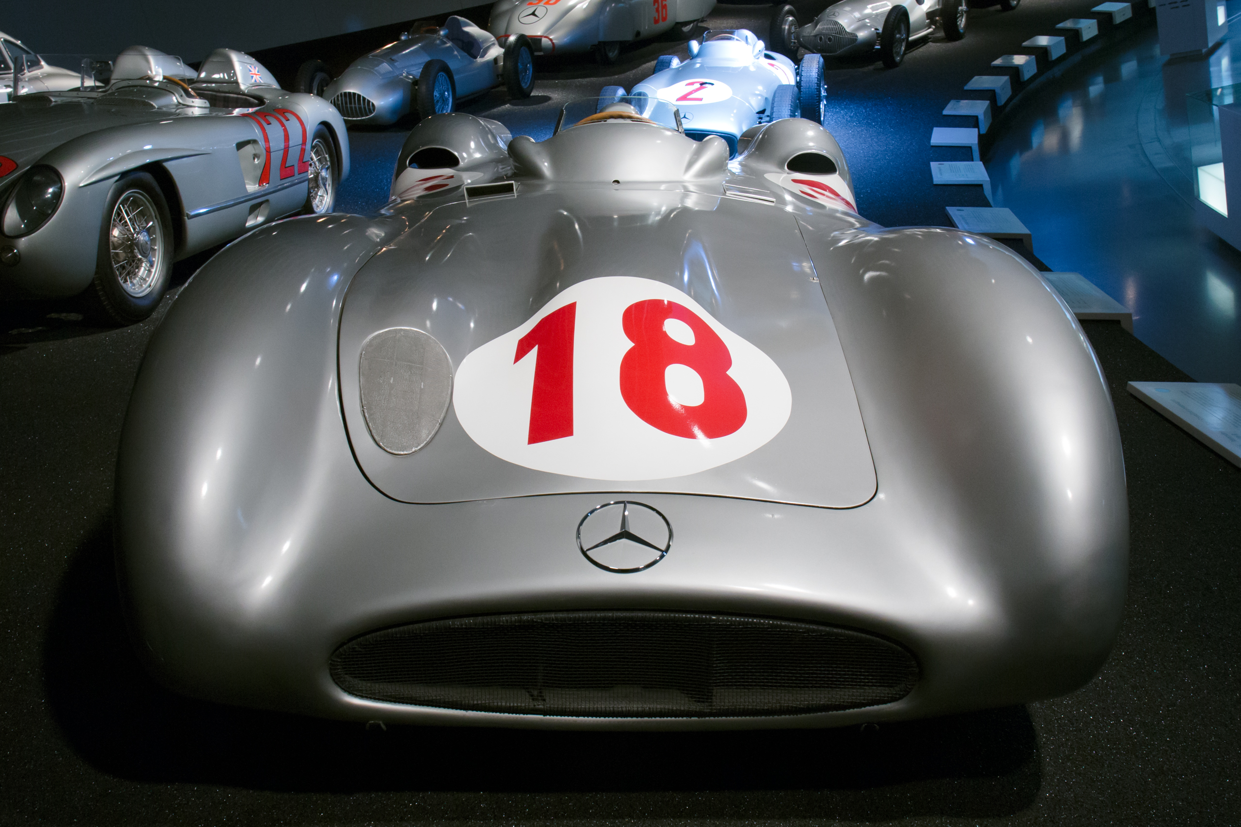 Mercedes-Benz W196R streamliner